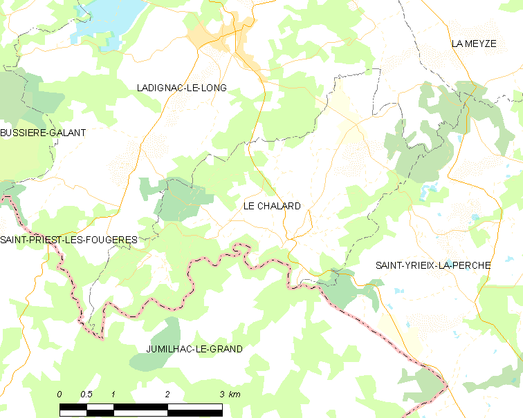 Map of French municipality Le Chalard